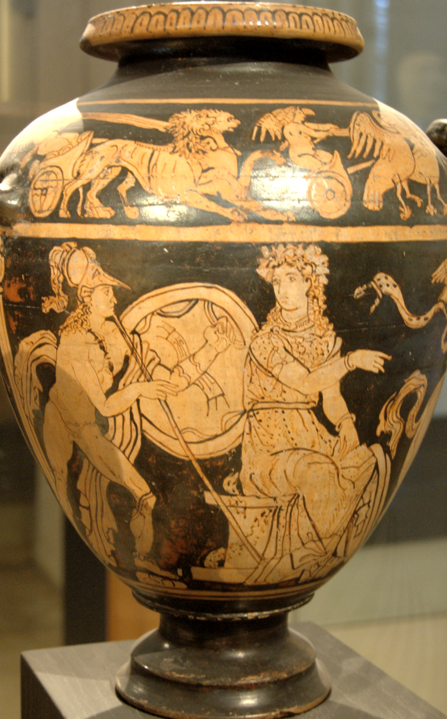 Achilles and Athena (Troilus is on the right). Top: Eros and Nike on chariots. Detail of an Etruscan red-figure stamnos (from a pair known as “Fould stamnoi”), ca. 300 BC. From Vulci.